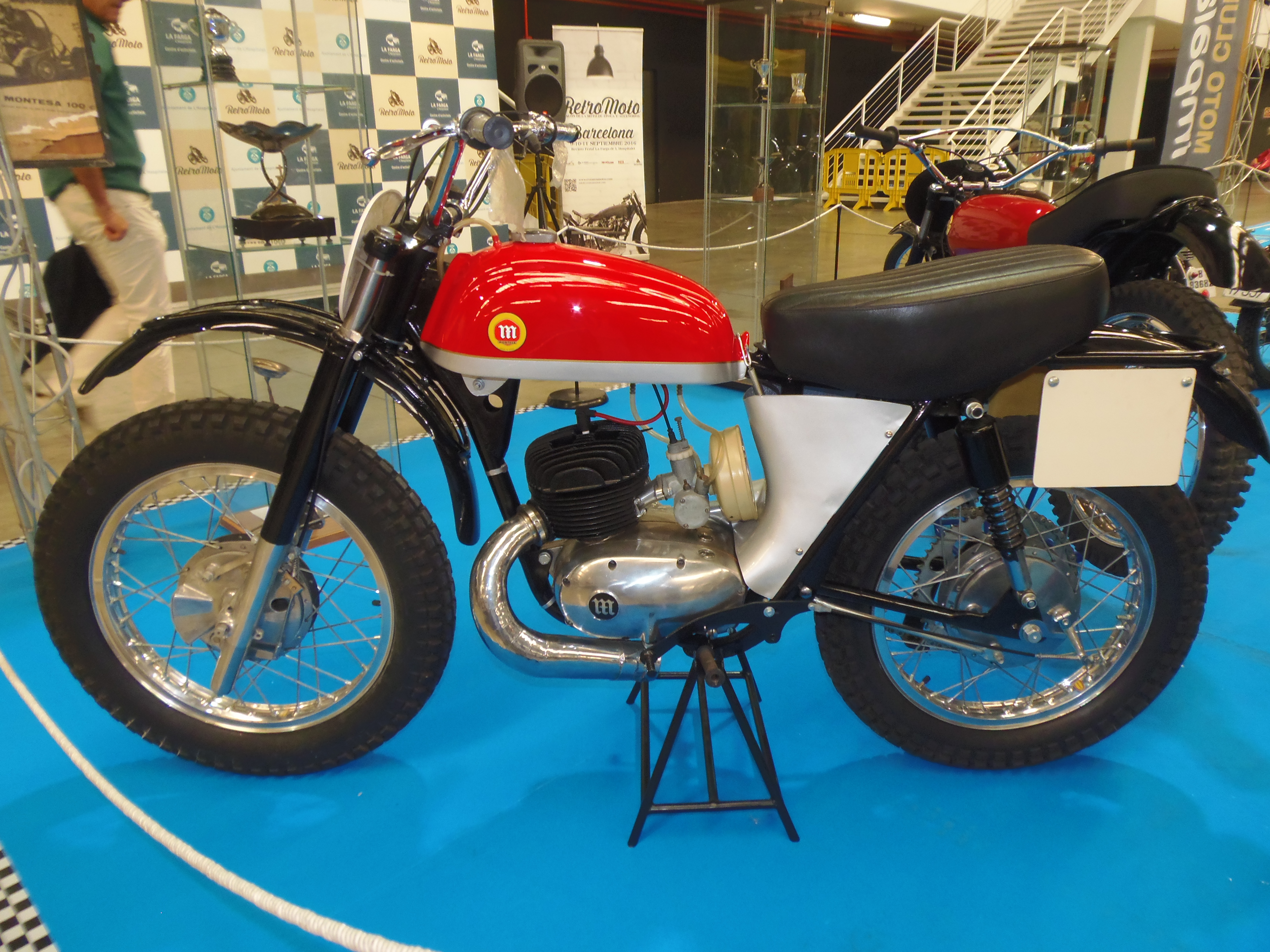 Montesa Impala Cross 250cc, 1963